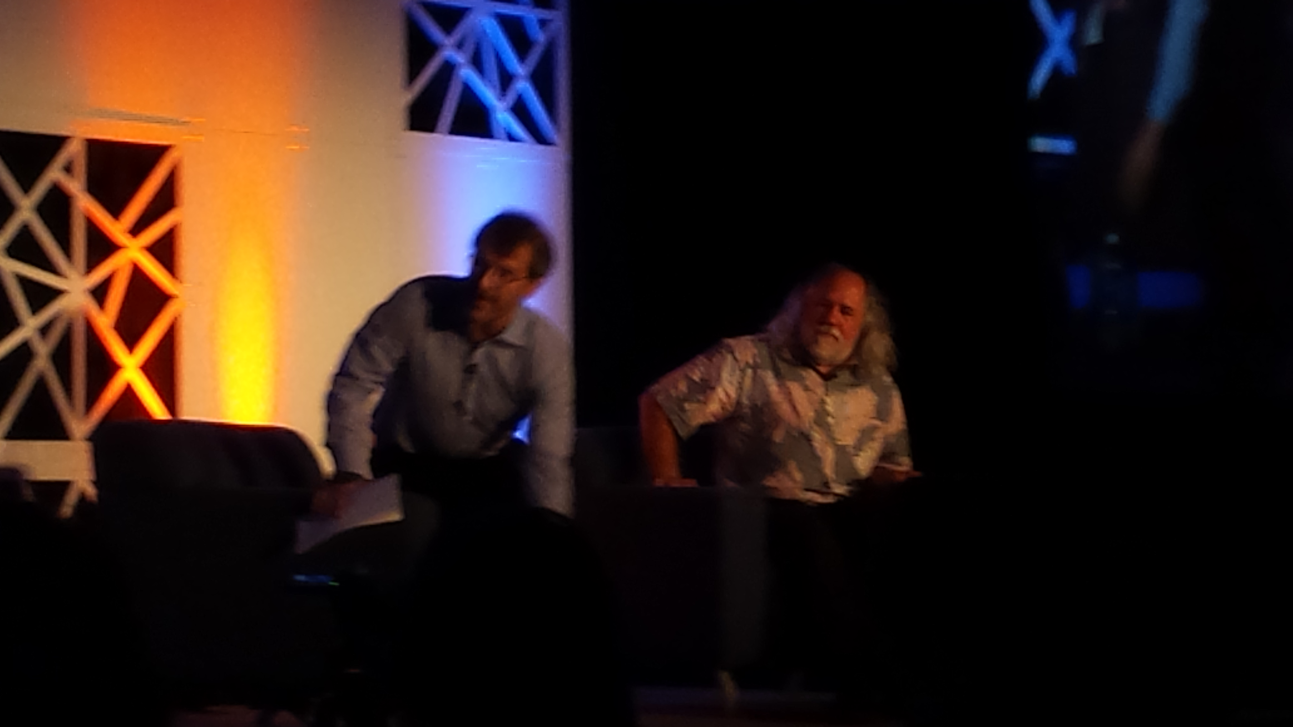 Josh Greenbaum interviewing Grady Booch at the first IEEE Computer Society TechIgnite conference.